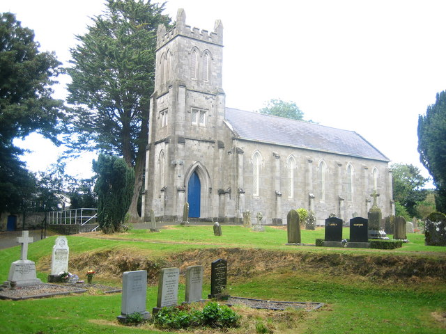 St Mary's Church Clonsilla, near to Clonsilla, Hartstown, Luttrellstown, Annfield and Phibblestown, Dublin, Ireland. The land on which St Mary's church stands has an ecclesiastical history going back to 500AD. The present church was built in 1845 with the tower added in 1850 during the office of Archbishop Whateley (1831 - 1863). The bell in the tower is dated 1747 and was cast in Gloucester. In 1907 Sir Arthur Vickers, the Ulster King at Arms, following the advice of a medium he had consulted, came to Clonsilla to search for the stolen insignia of Saint Patrick (the Irish State Crown Jewels). The visit ended in failure. Rumours still persist that the jewels are hidden somewhere in the grounds. Link